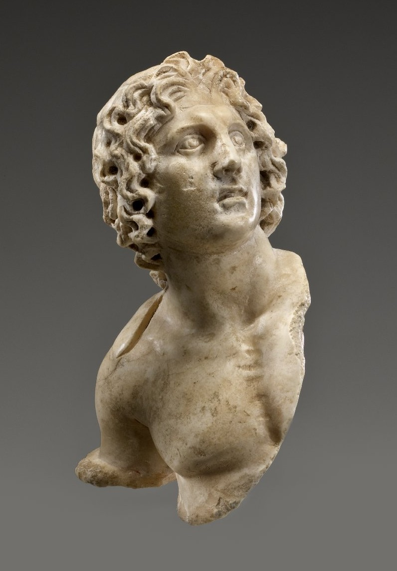 Alexander the Great, 100 B.C.E. – 100 C.E. marble, 3 1/2 x 2 x 1 1/2 in. (8.9 x 5.1 x 3.8 cm). Brooklyn Museum, Charles Edwin Wilbour Fund, 54.162